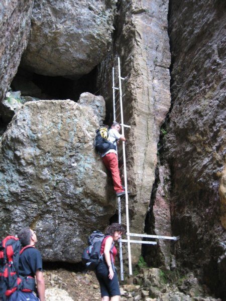 The big stone embedded in the Vajo Streto